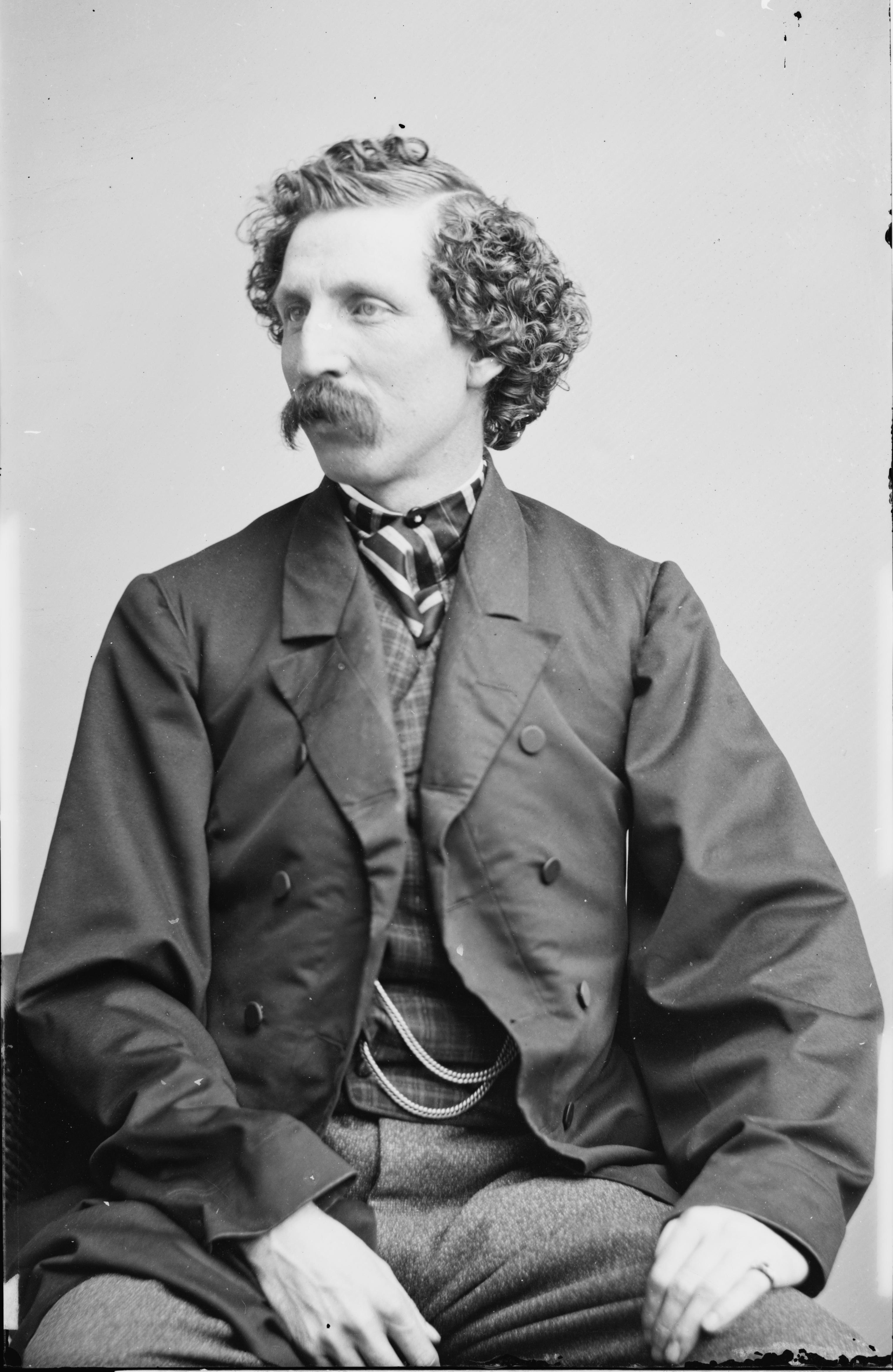 Artemas Ward, Jr.. Library of Congress description: "Artemas Ward, Jr."